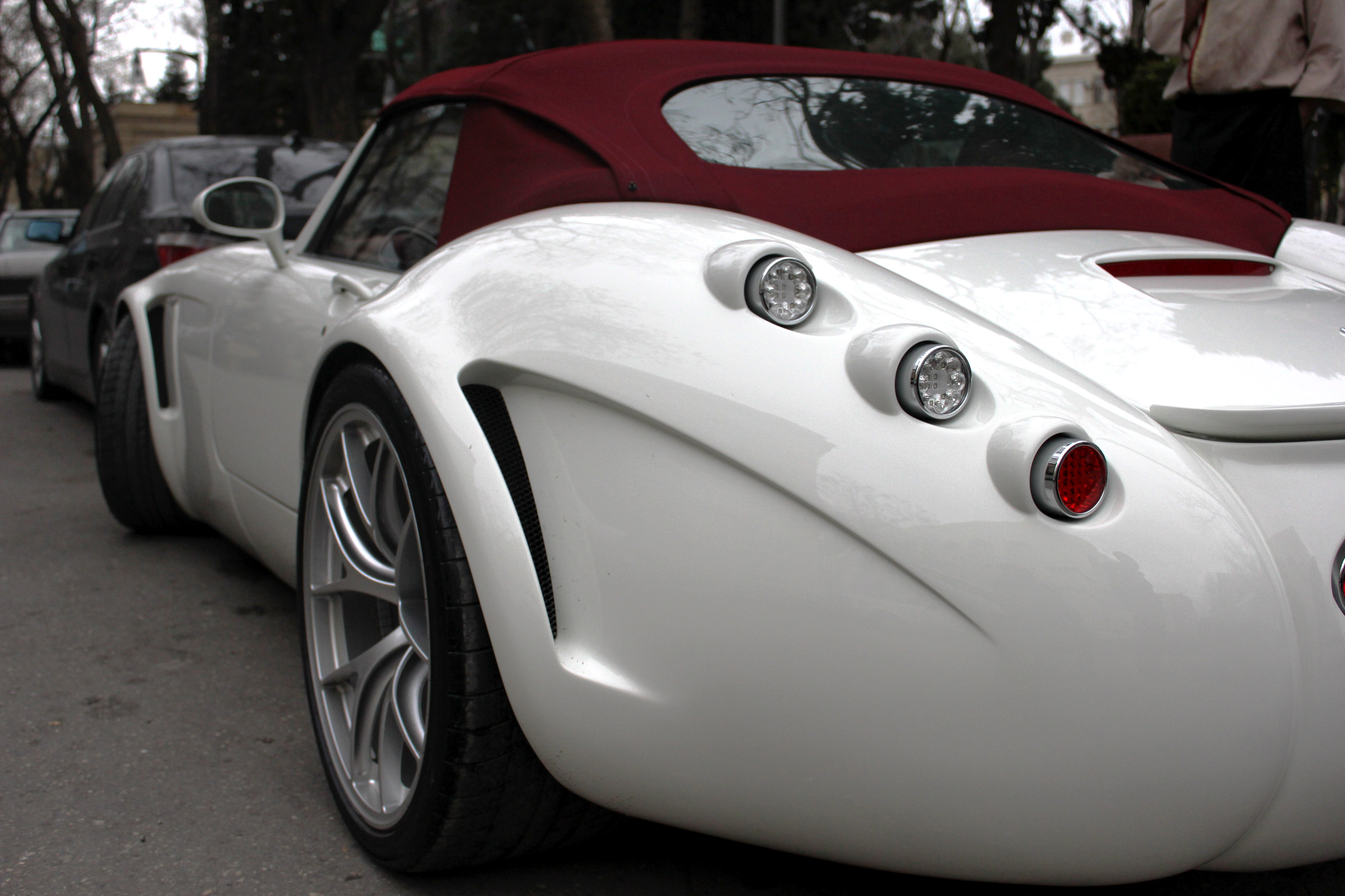 Wiesmann in Baku